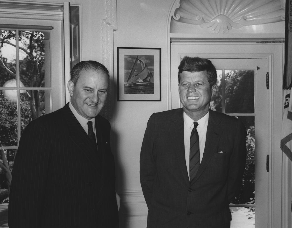 President John F. Kennedy meets with Foreign Minister of Spain, Fernando María Castiella (left). Oval Office, White House, Washington, D.C.